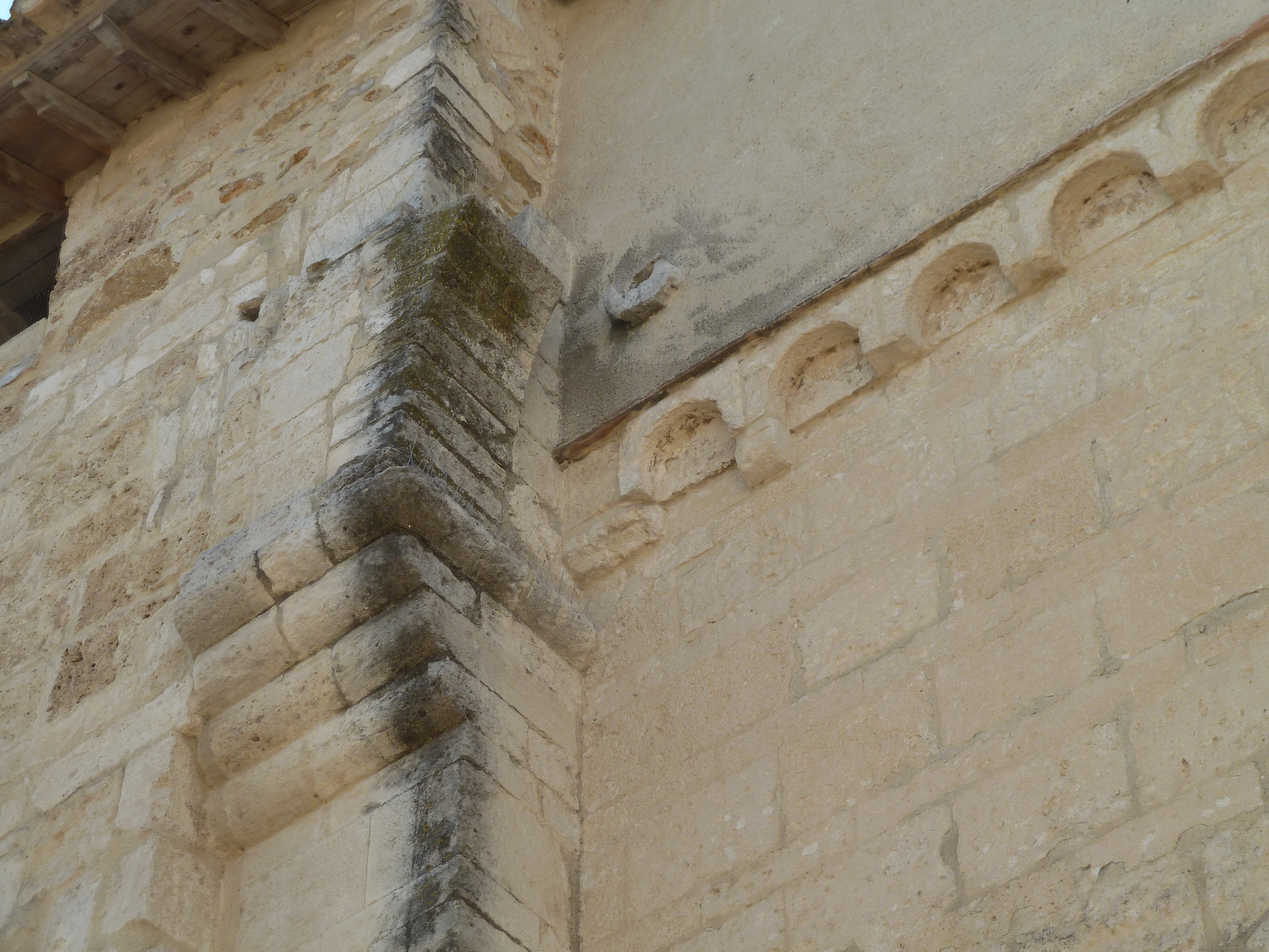 Church of Saint-Jean-Baptiste in Castelnau-le-Lez (vicinity of Montpellier, France). North side. Upper part of the fourth bay of the nave, with fortification remains.